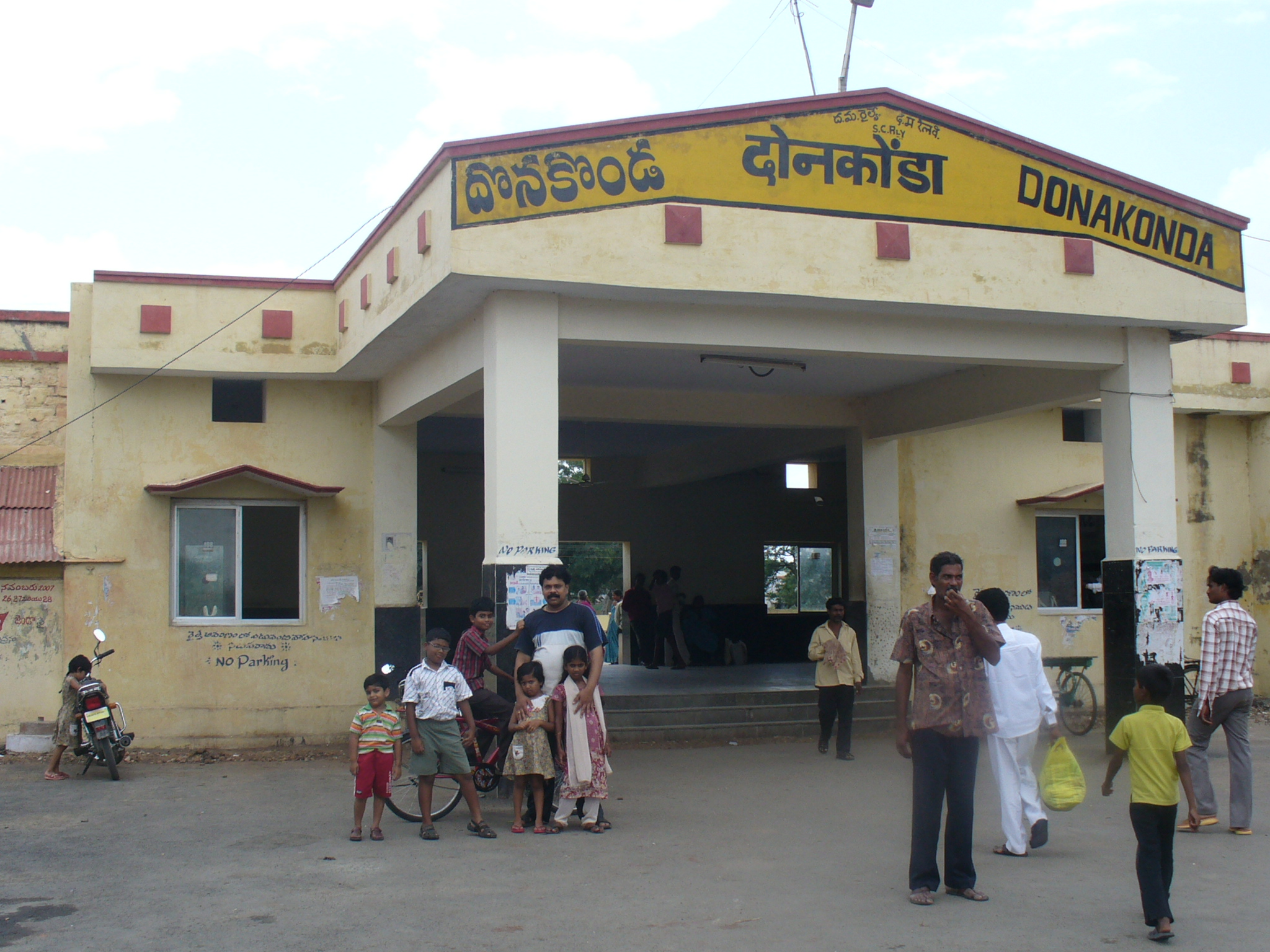 DKD Railway Station Entrance